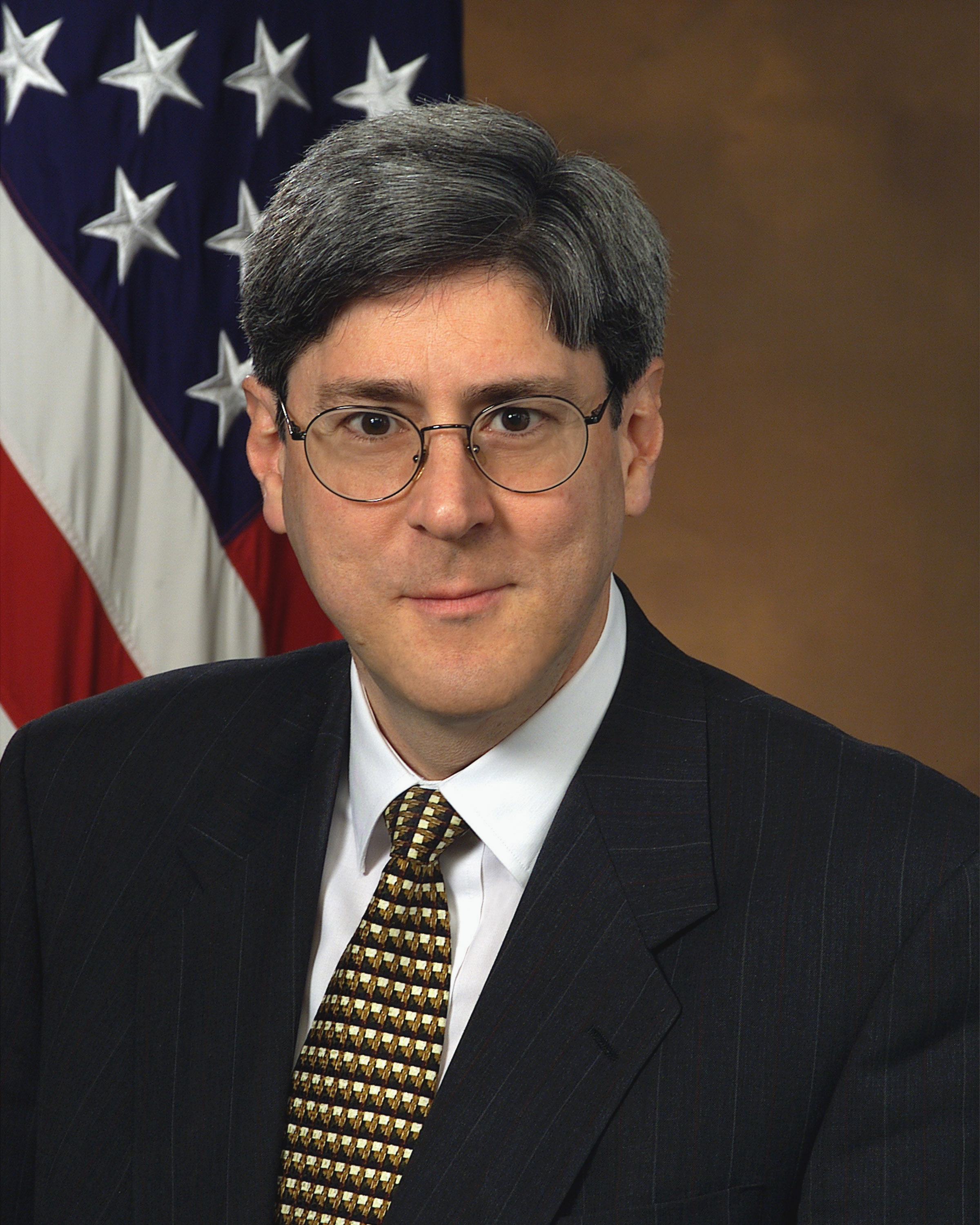 Former Under Secretary of Defense for Policy Douglas J. Feith.